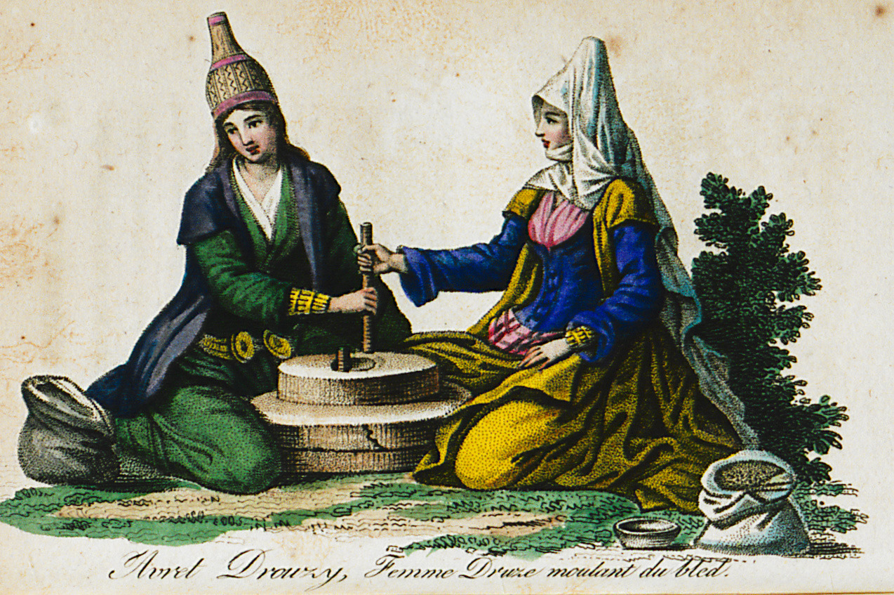 Antoine-Laurent Castellan. Moeurs, usages, costumes des Othomans, et abrégé de leur histoire; par A. L. Castellan, auteur de Lettres sur la Morée et sur Constantinople, Paris, Nepveu, 1812.